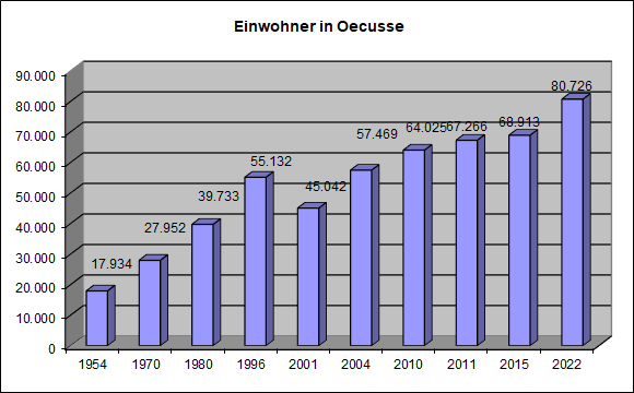 Population in Oecusse/East Timor